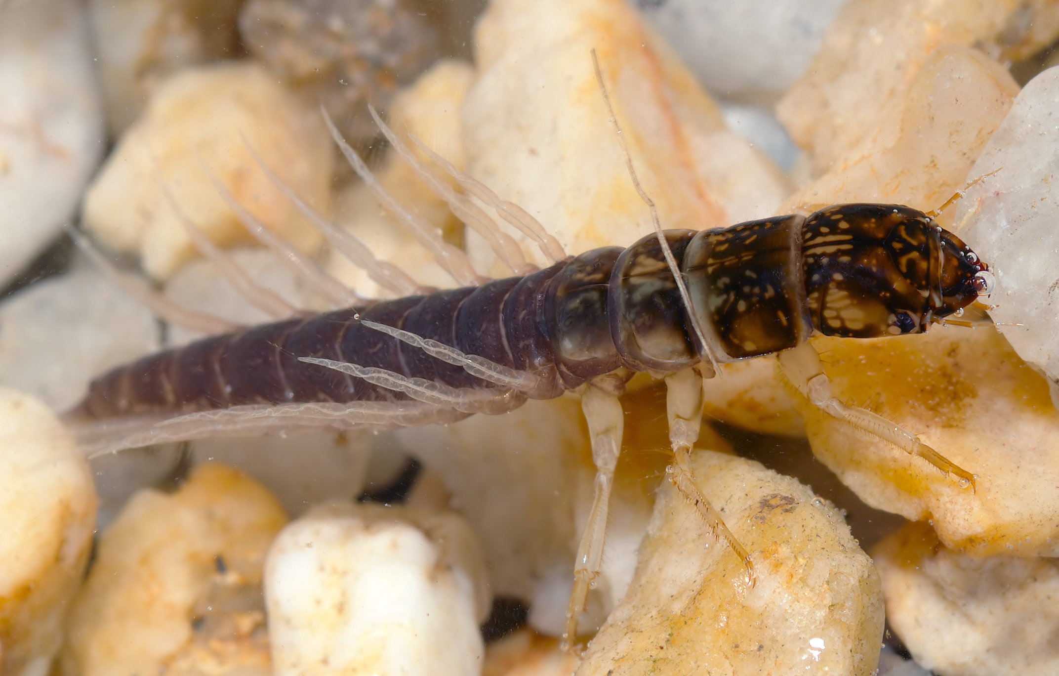 This image shows an about 1,2 inch (3 cm) long alderfly larva of the species (Sialis lutaria). Thanks to Fice for identifying this animal.